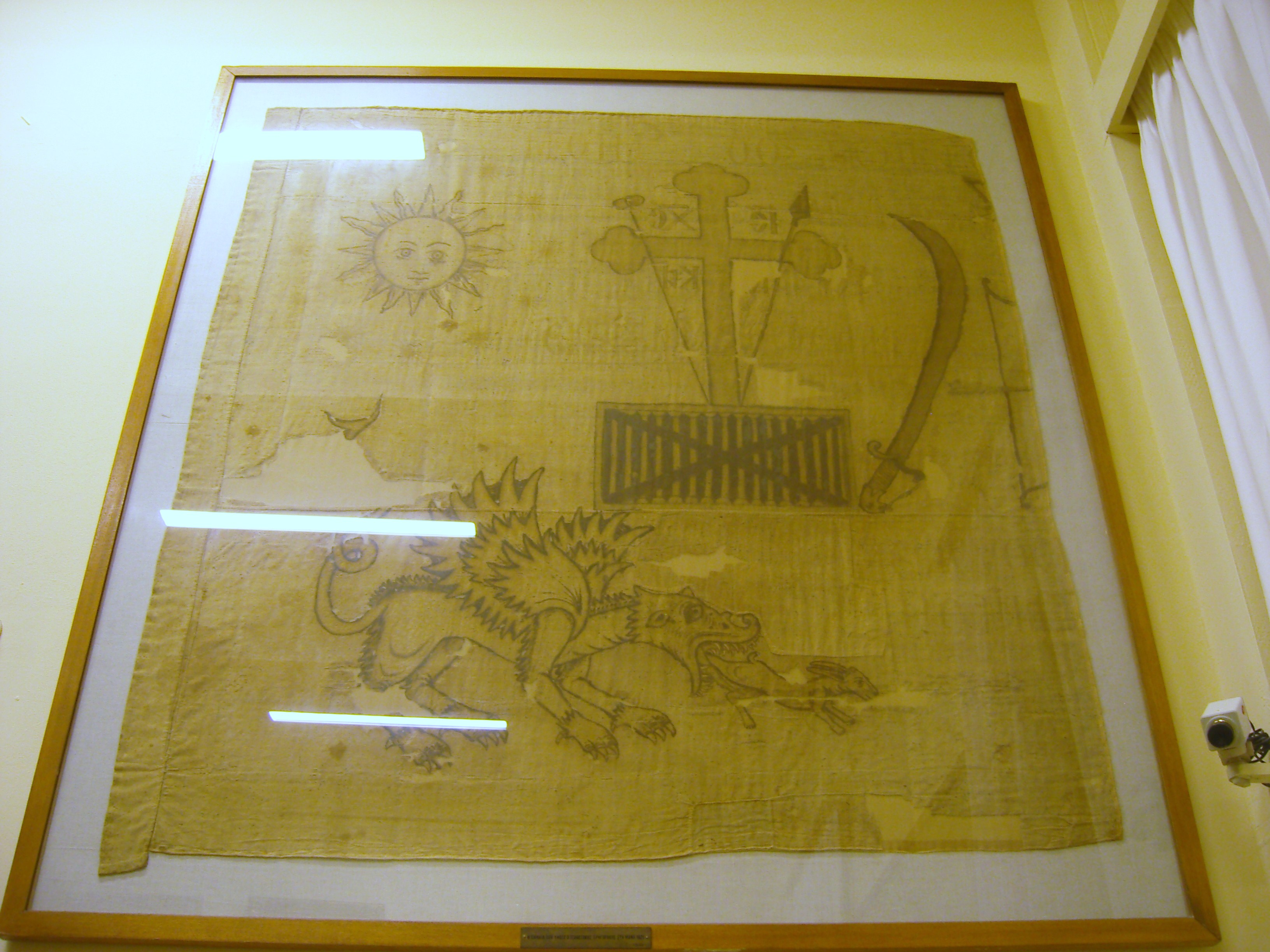 Flag displayed by Maniot leader Tzanetakis Grigorakis in the Greek uprising of 1821.